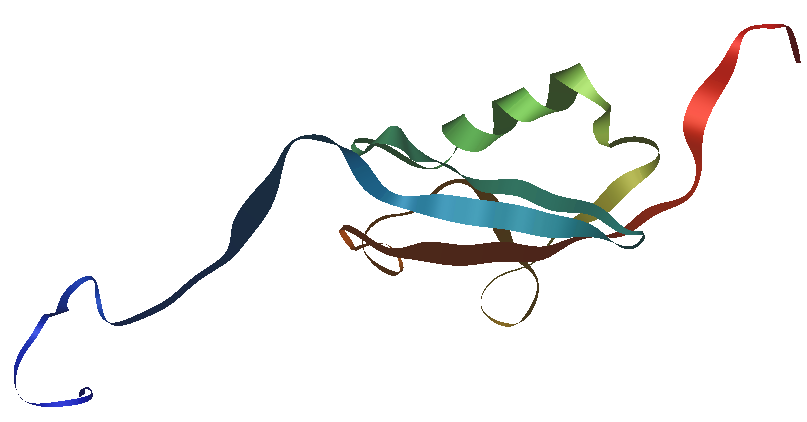 structure schematic of human SUMO1 protein made with iMol and one of 10 models from PDB file 1A5R, an NMR structure; ribbon view